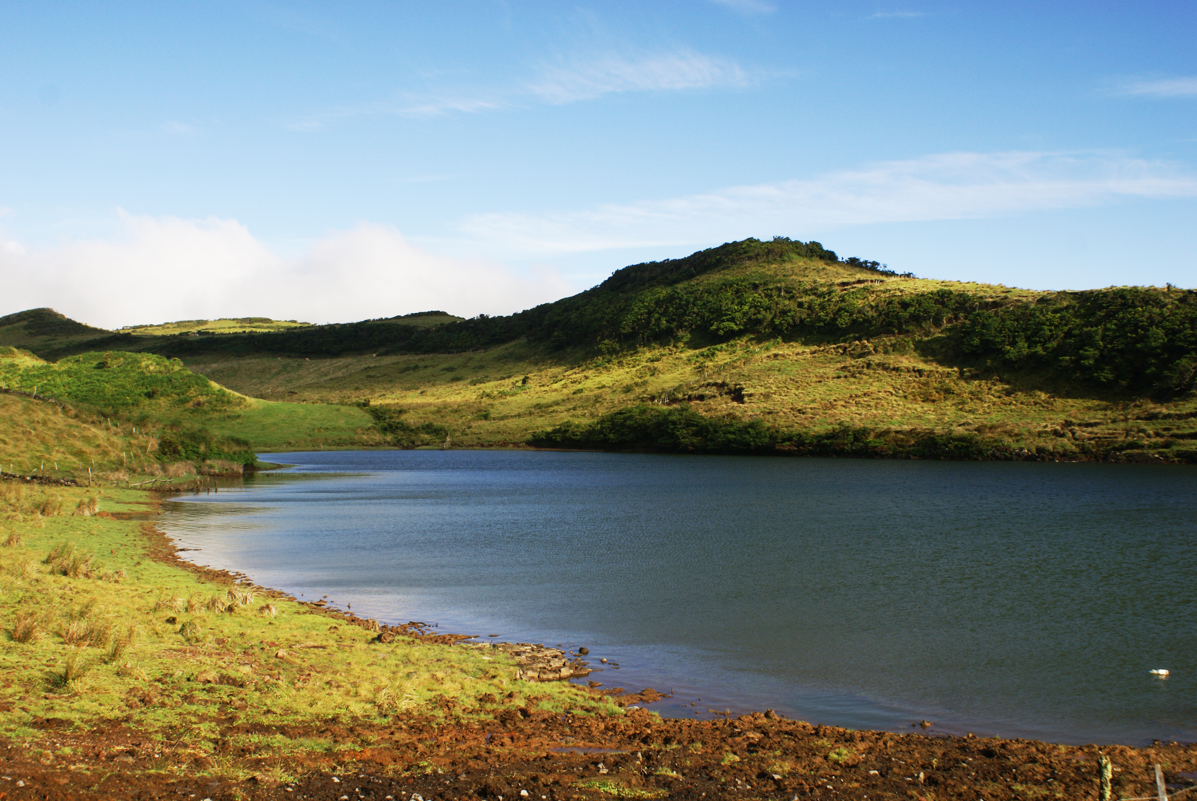 Lagoa do Capitão, Ribeirinha, concelho das Lajes do Pico, ilha do Pico, Açores, Portugal